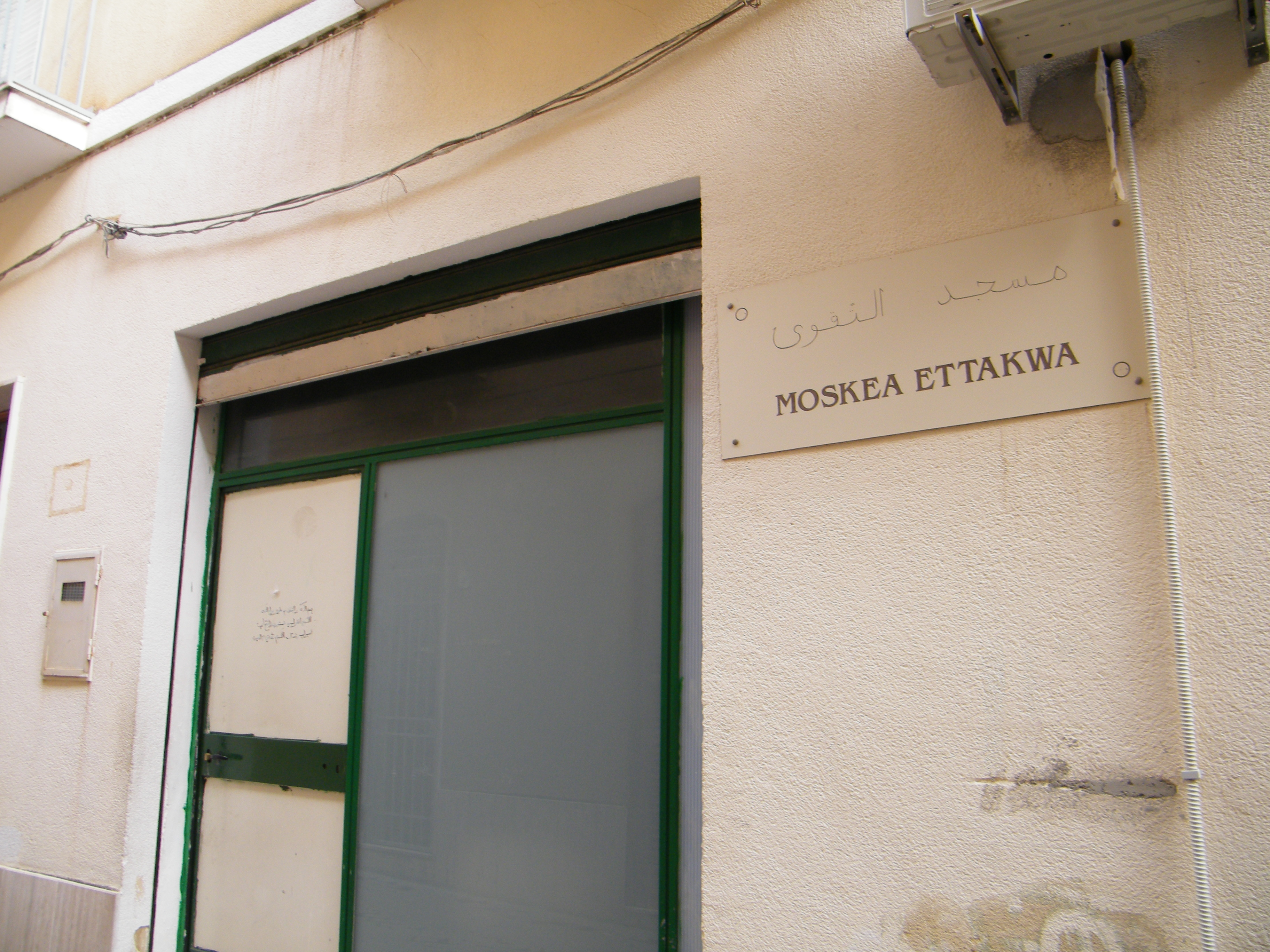 Ettakwa Mosque in Mazara del Vallo